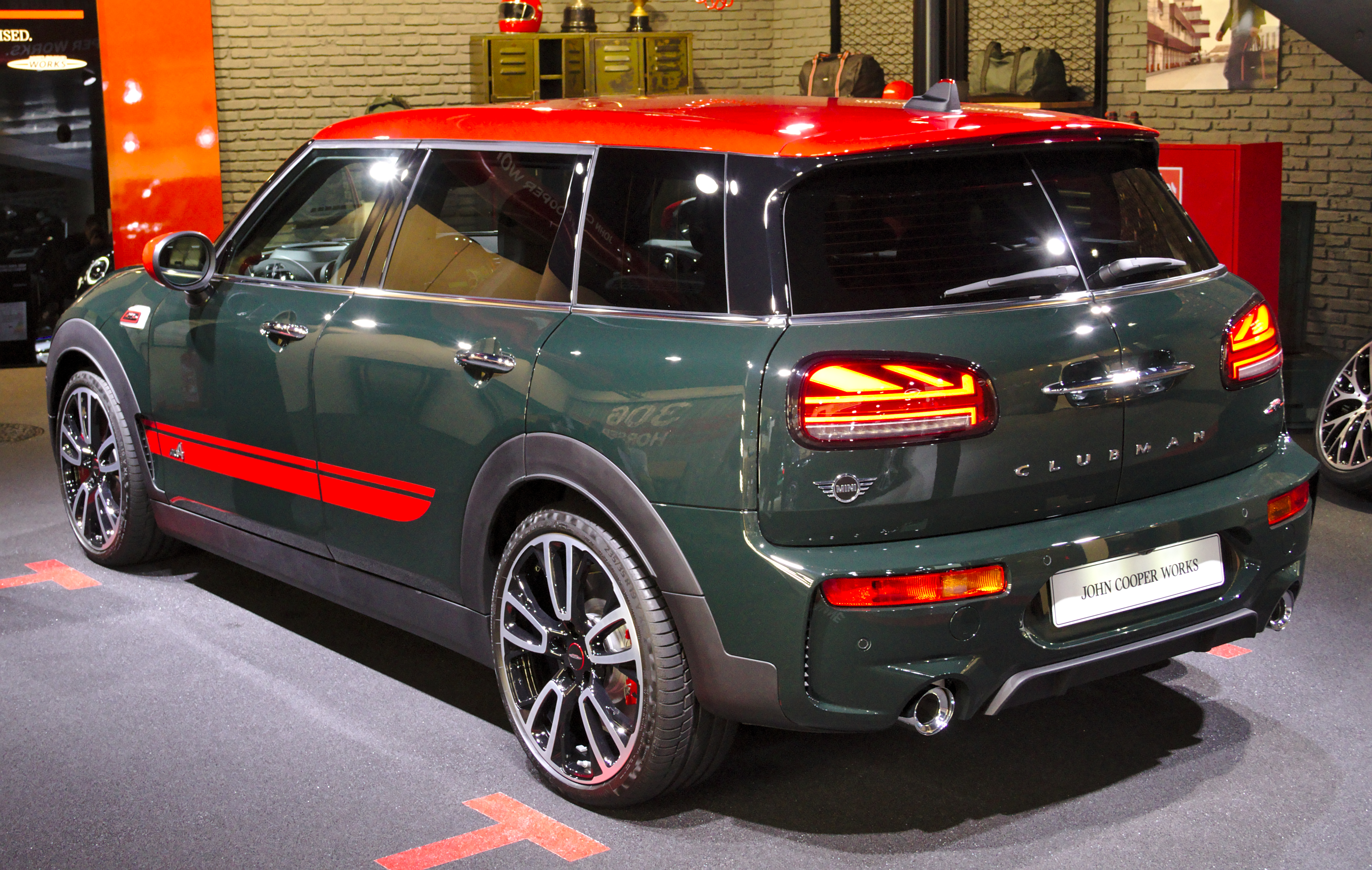 Mini_Clubman_(F54)_John_Cooper_Works at IAA 2019